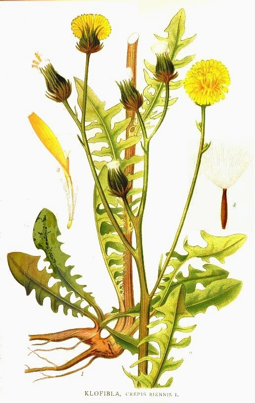 Original Description Klofibla, Crepis biennis L.